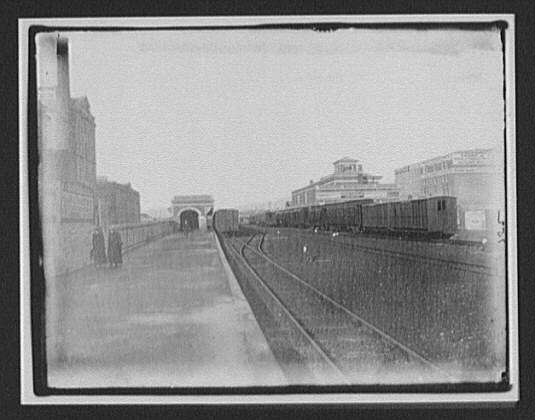 Title: Aukland [sic] - railway station Physical description: 1 photographic print : gelatin silver ; 8 x 10 in. or smaller. Notes: Photographic print made by LC from Jackson's vintage glass negative.; Forms part of: Jackson, William Henry, 1843-1942. World's Transportation Commission photograph collection (Library of Congress).; Gift; Colorado Historical Society; 1949.